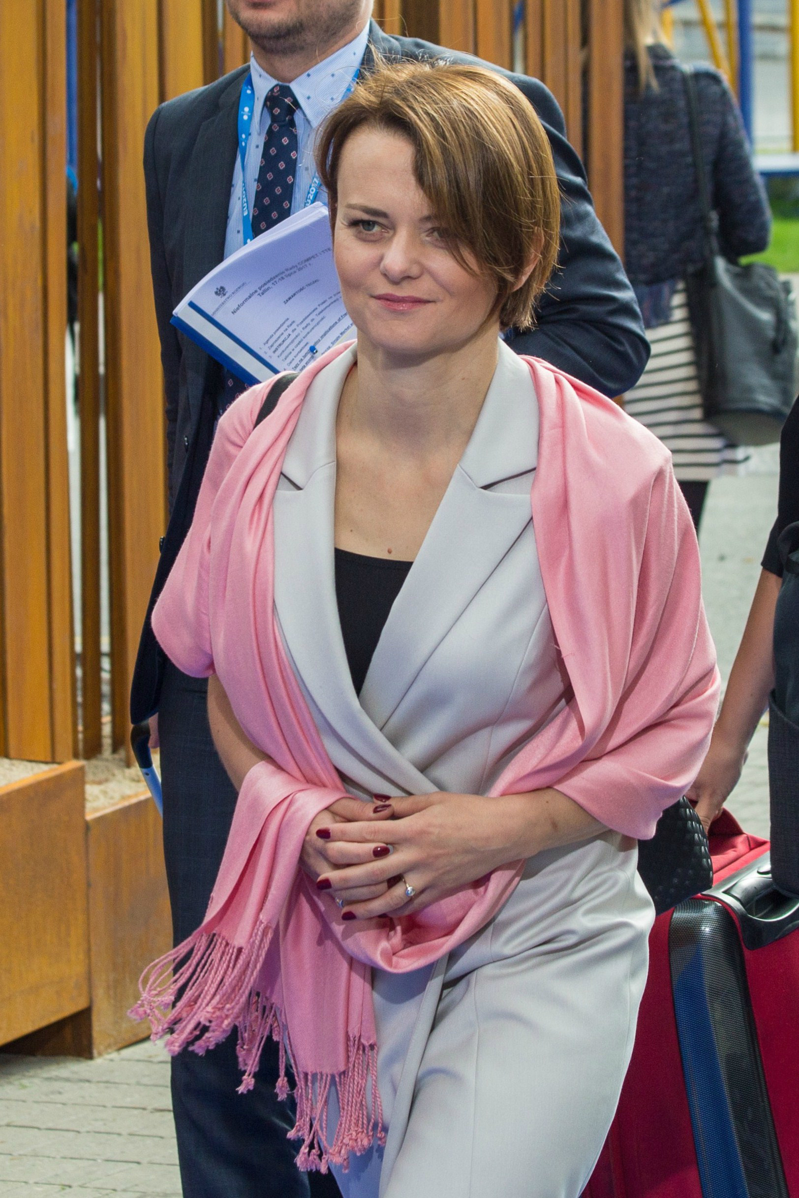 Jadwiga Emilewicz, Undersecretary of State, Ministry of Economic Development, Poland. Photo: Aron Urb (EU2017EE)